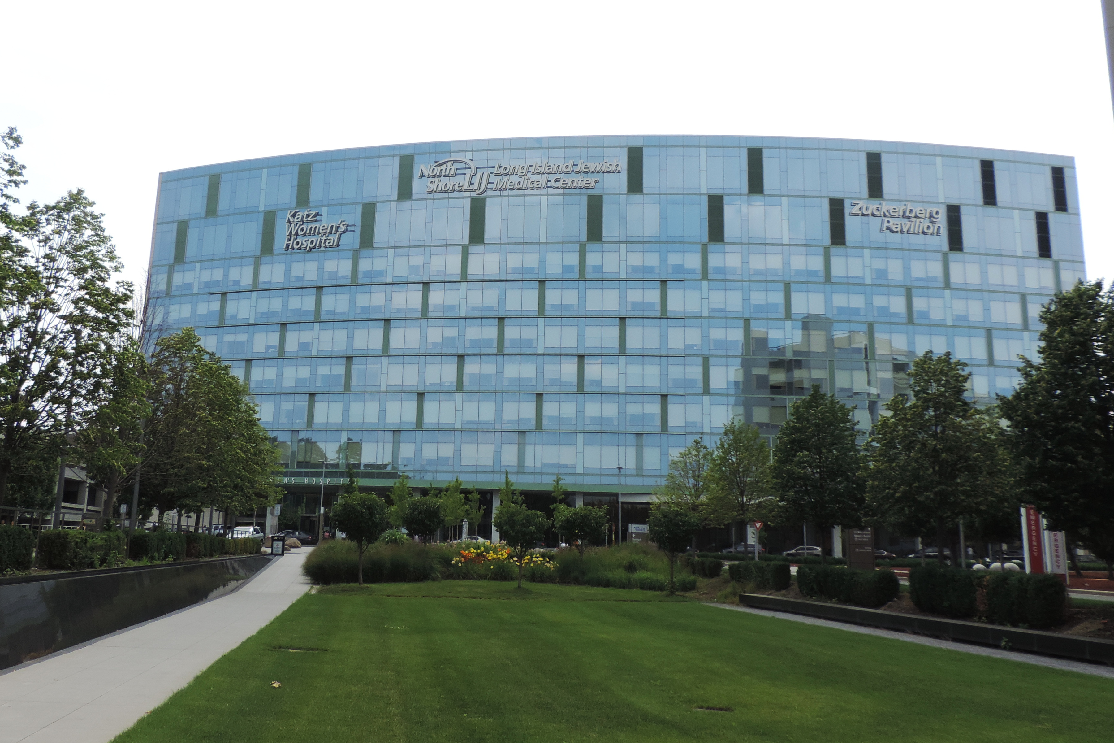 Looking west on a mostly cloudy midday.